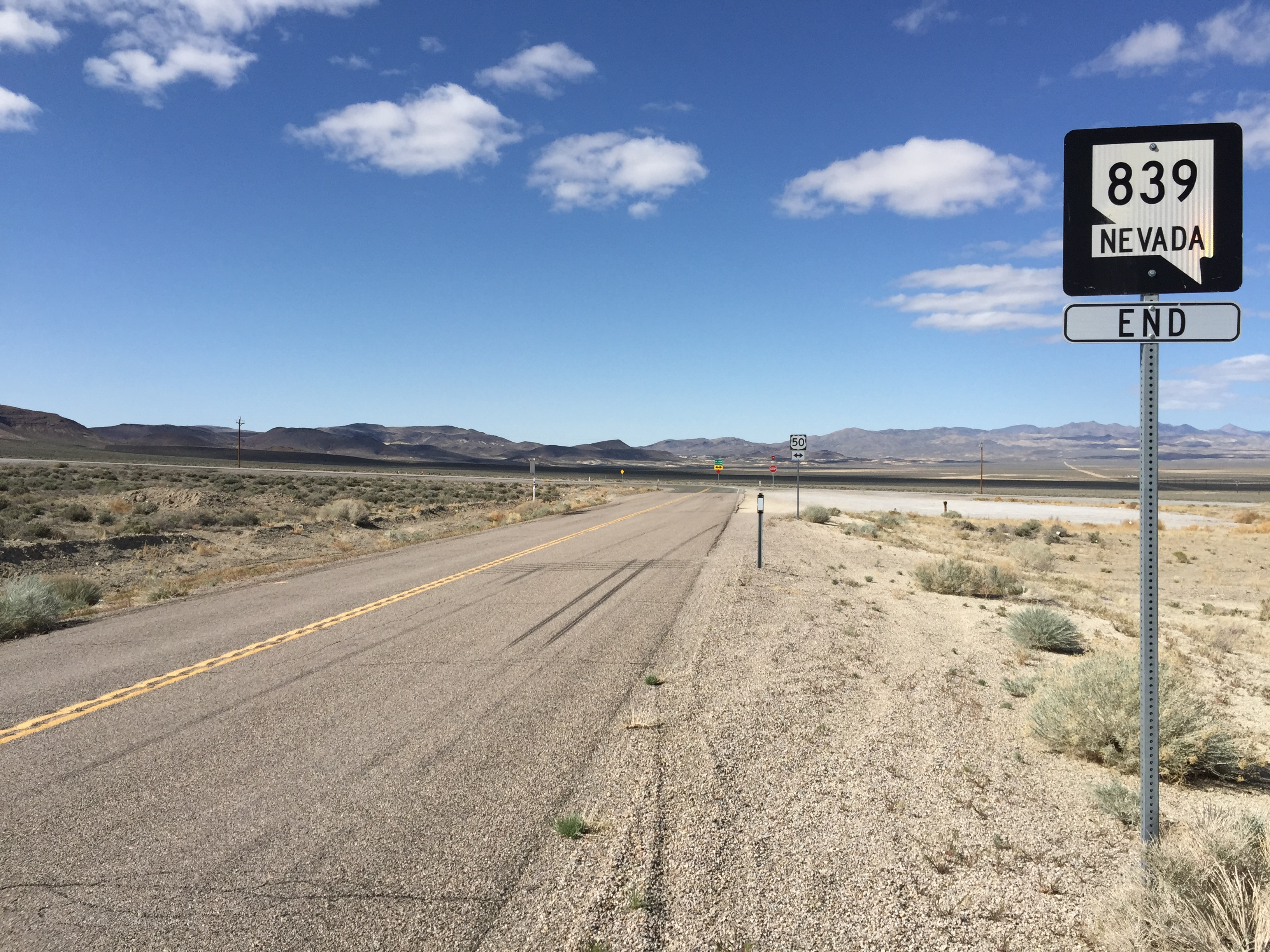 View north at the north end of Nevada State Route 839 (Nevada Scheelite Mine Road) in Churchill County, Nevada